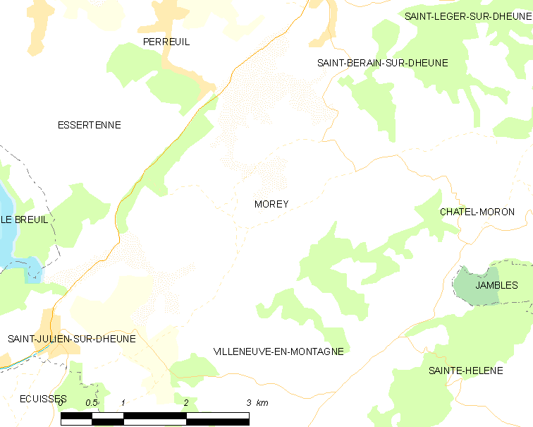 Map of French municipality